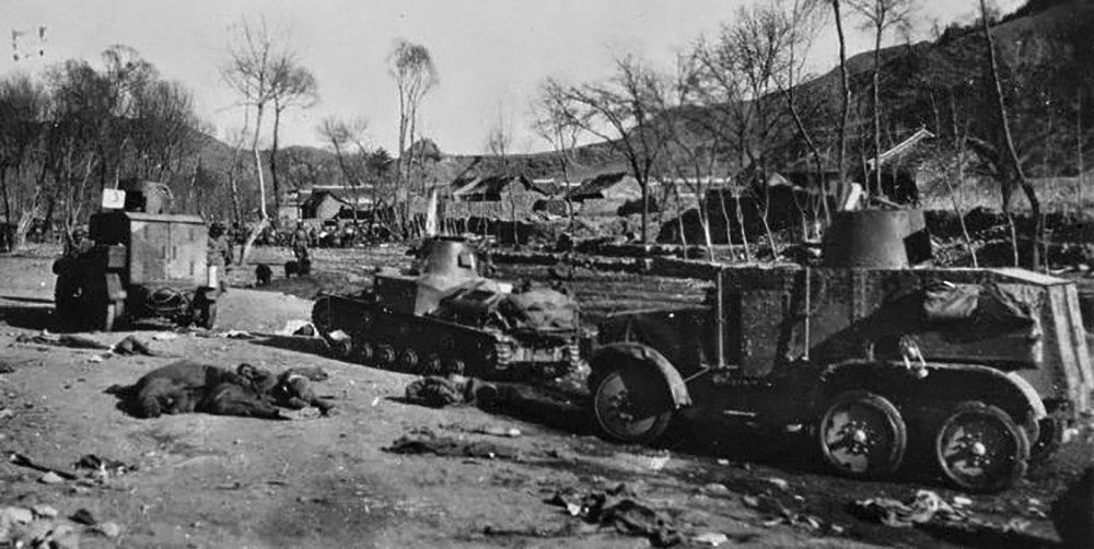 A Type 92 Chiyoda Armoured Car and a Type 92 Iju Sōkōsha Tankette of the Imperial Japanese Army entering a chinese village, 1930th